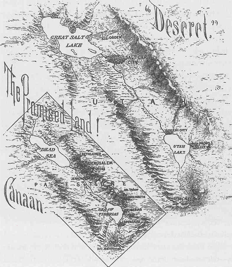 Comparing Utah Lake, Great Salt Lake and Jordan River of Utah to Sea of Galilee, Dead Sea and River Jordan of the Middle East.